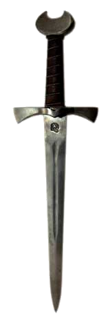 Photo by Jørgen Adam Holen Modern dagger fashioned after the kind which became popular in the 17th century, shaped like a medieval sword. manufacturer: , Prague, Czech Republic